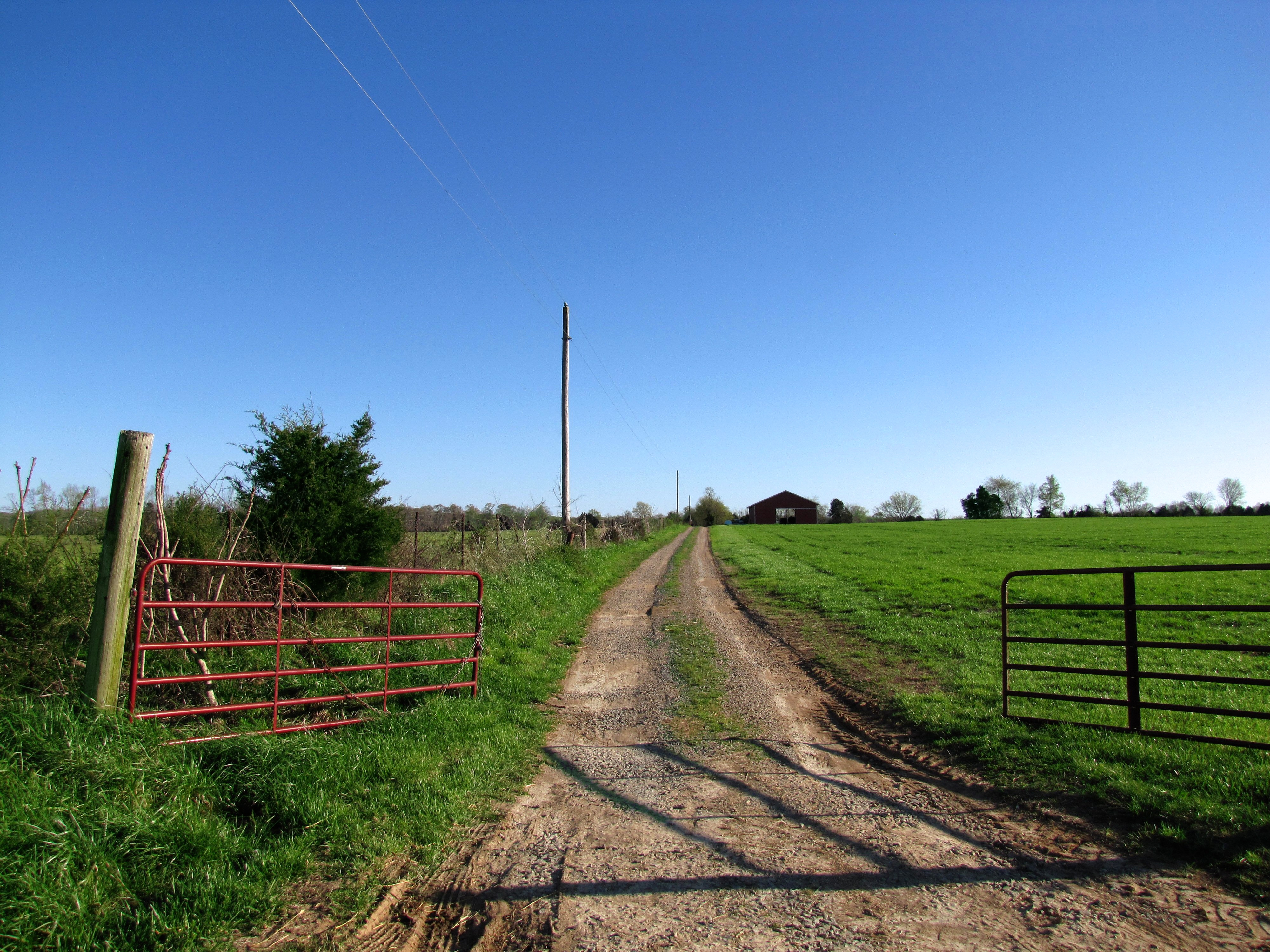 Farm in rural northern Putnam County, Tennessee, United States.